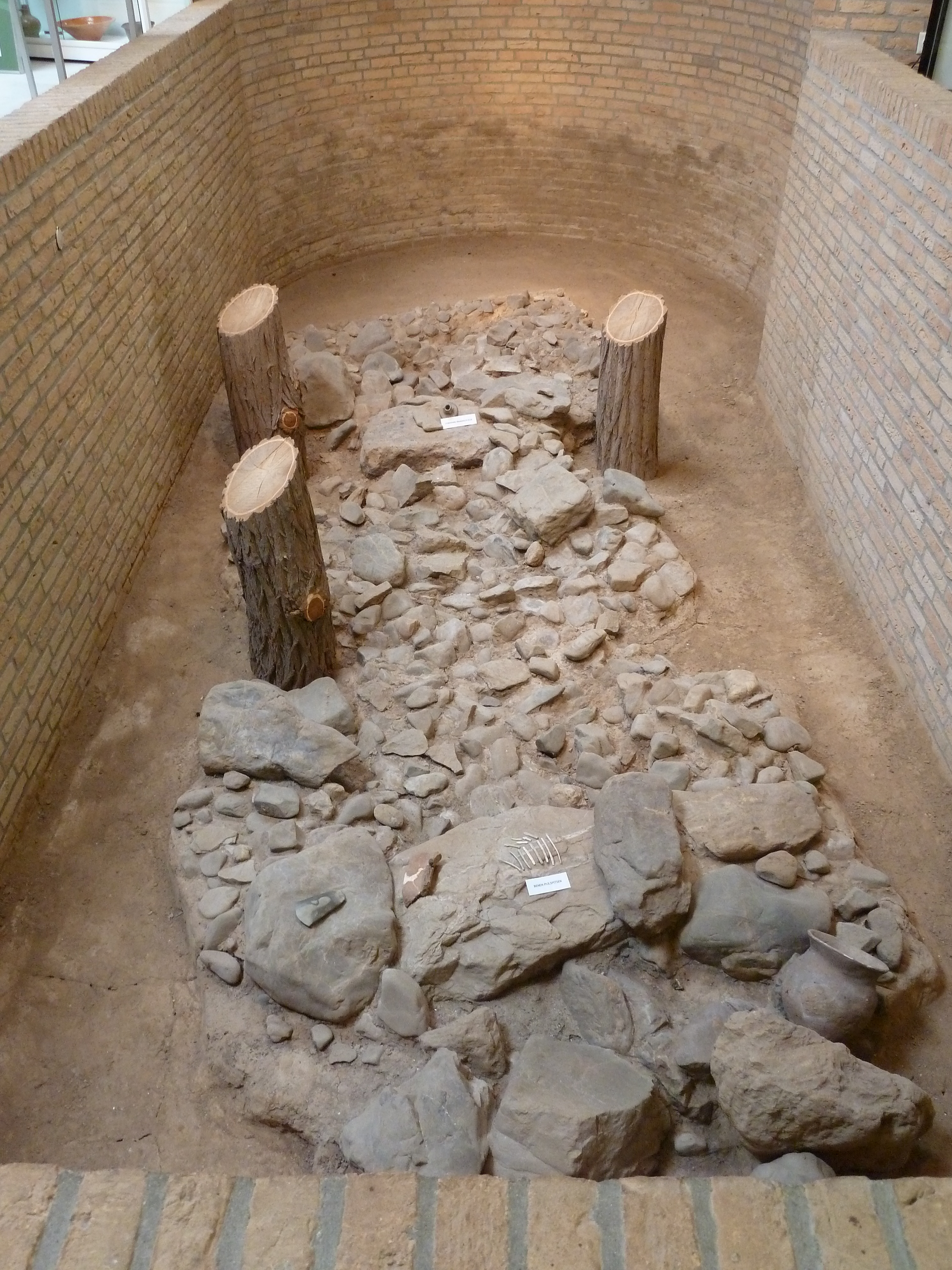 Burial chamber of Stein, Limburg, the Netherlands